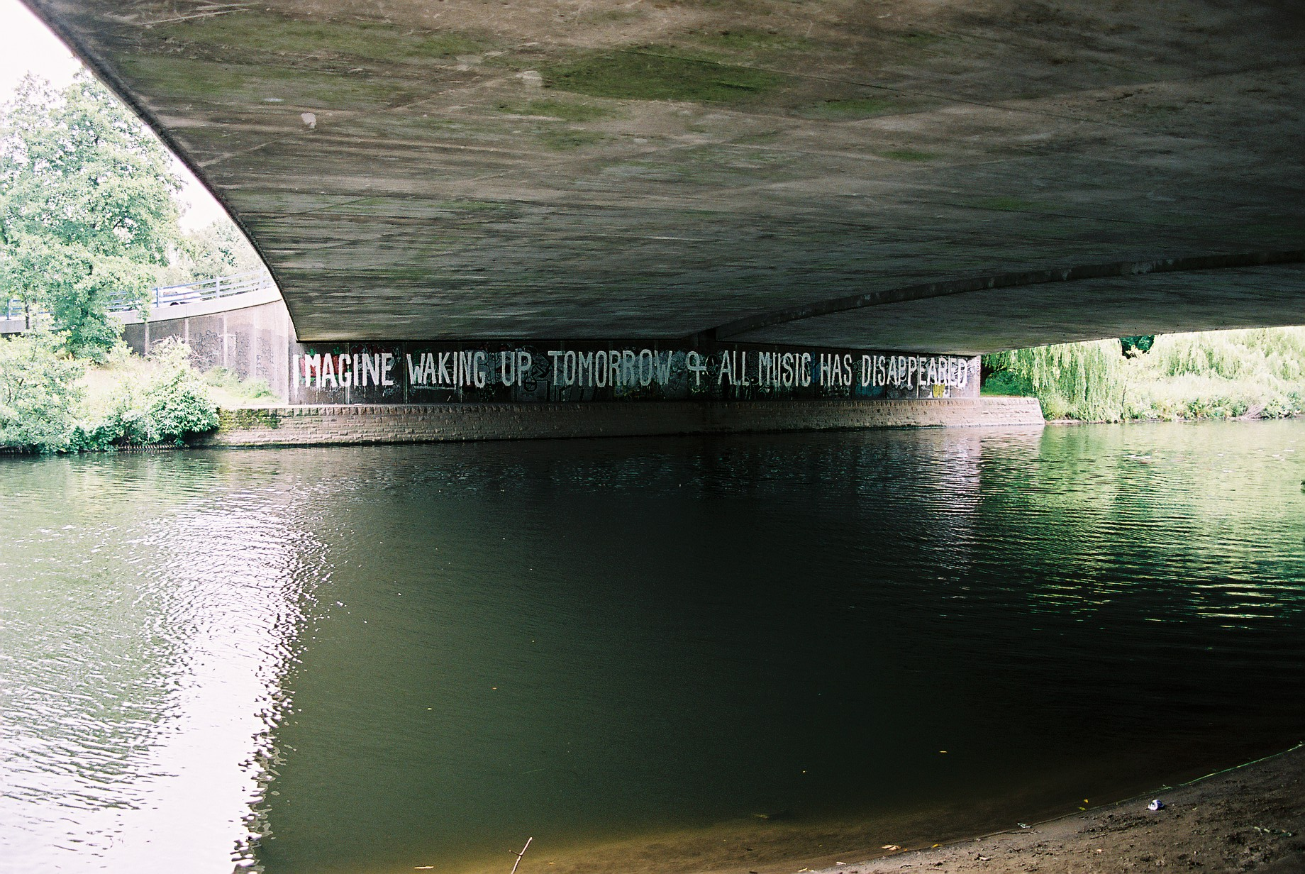 IMAGINE Graffiti made by Bill Drummond under Causey Bridge over the Derwent in Derby, England: 2008. Photograph: John Hirst